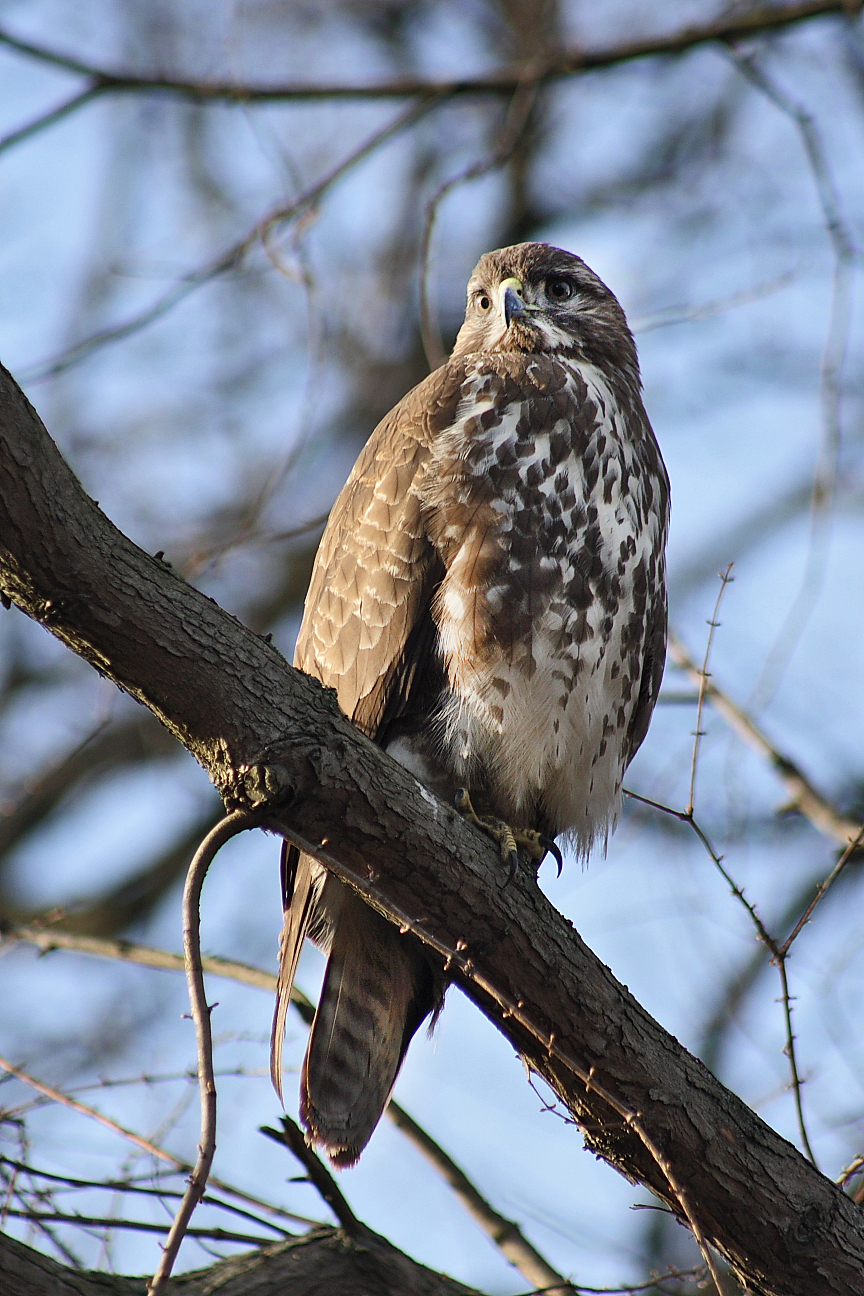 Young Common Buzzard (Buteo buteo) in its second calendar year. Municipal park Planten un Blomen, Hamburg, Germany.